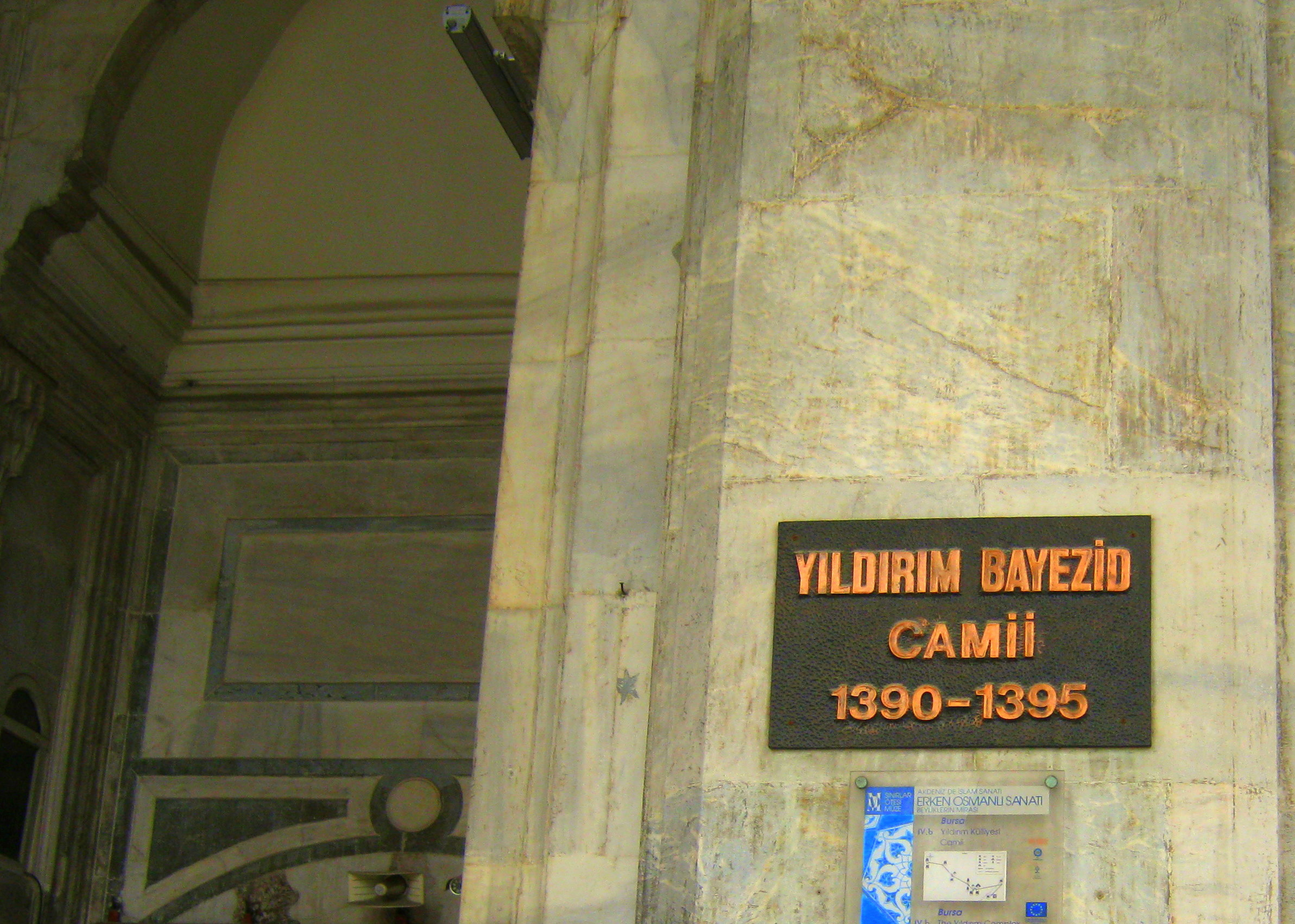 YILDIRIM,BEYAZIT,CAMİİ,BURSA